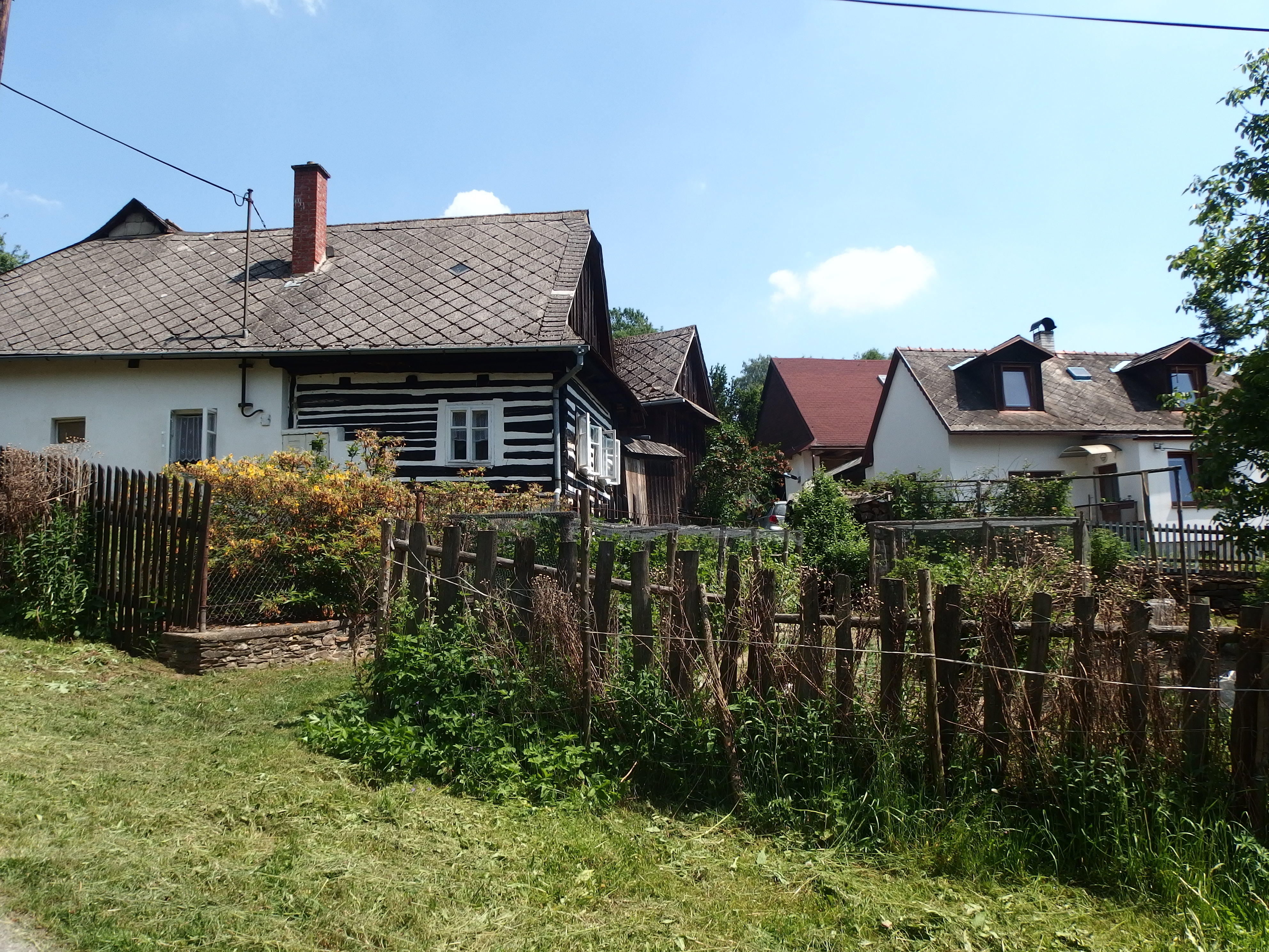 Rohozná, Svitavy District, Czech Republic, part Manova Lhota.